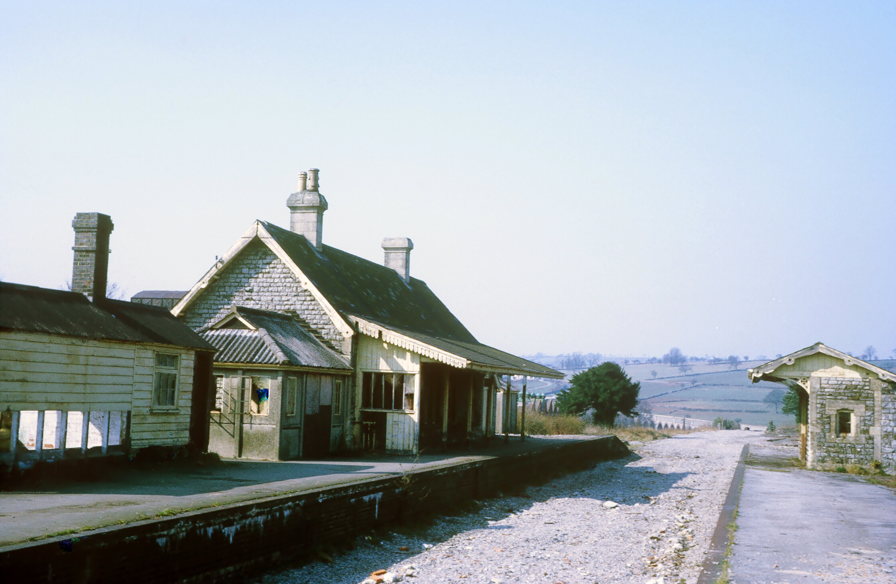 Shepton Mallet (Charlton Road) station on the Somerset and Dorset Joint Railway, photographed three years after its closure